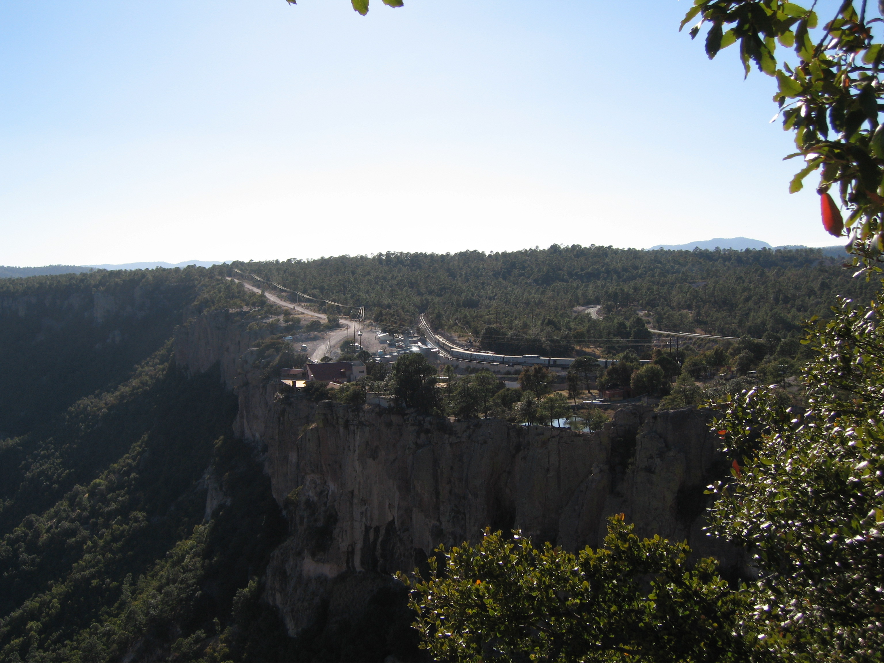 view on El Divisadero (small village) at the copper canyon (barranca del cobre) in Chihuahua, Mexico. Picture taken February 2006 by Jens Uhlenbrock.